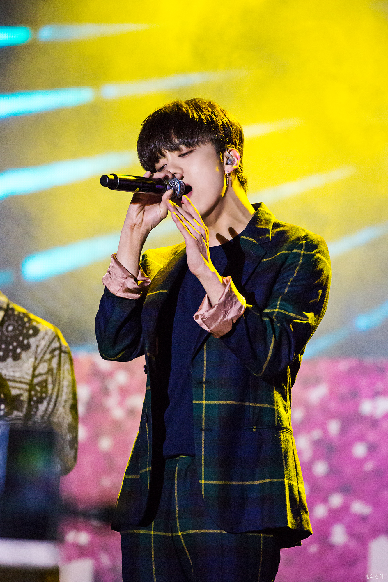 B.A.P performing at the LG Dream Festival in Gumi on October 14, 2017.